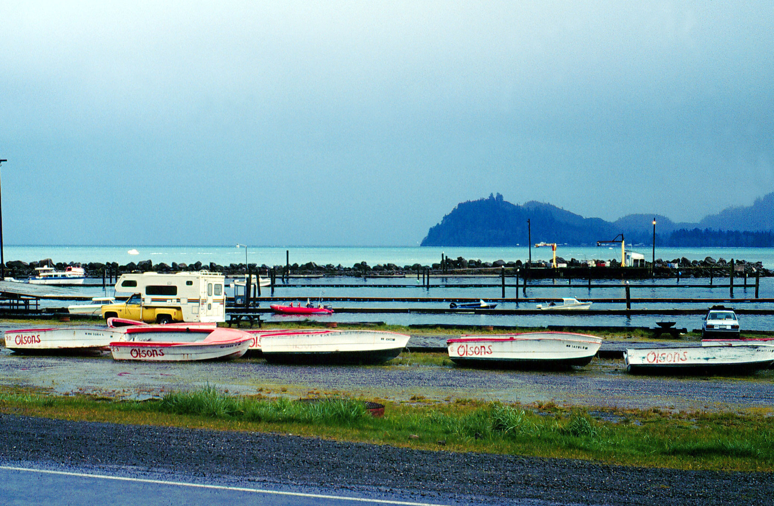 Fishing boats out for the winter in the town of Sekiu, Washington.